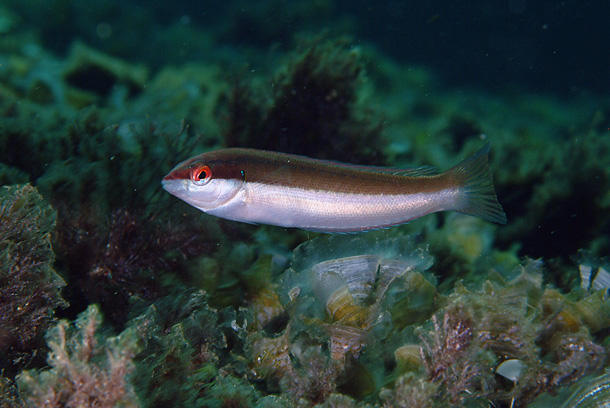 Coris julis (female) photographed near Livorno (Tuscany, Italy). Photo by Stefano Guerrieri.